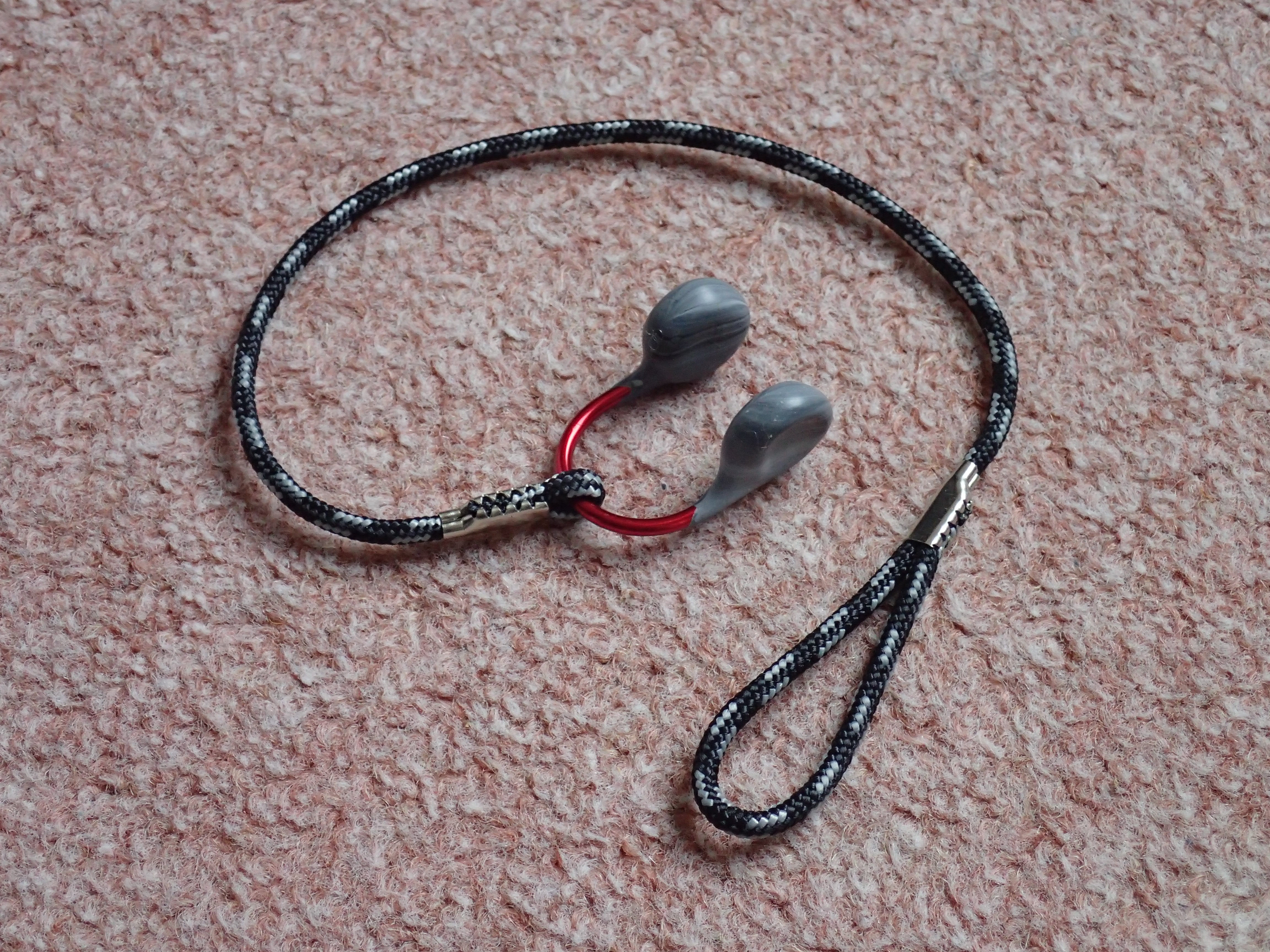 Nose clip. Wire covered in plastic with cord for attaching to swim goggles or kayaking helmet.